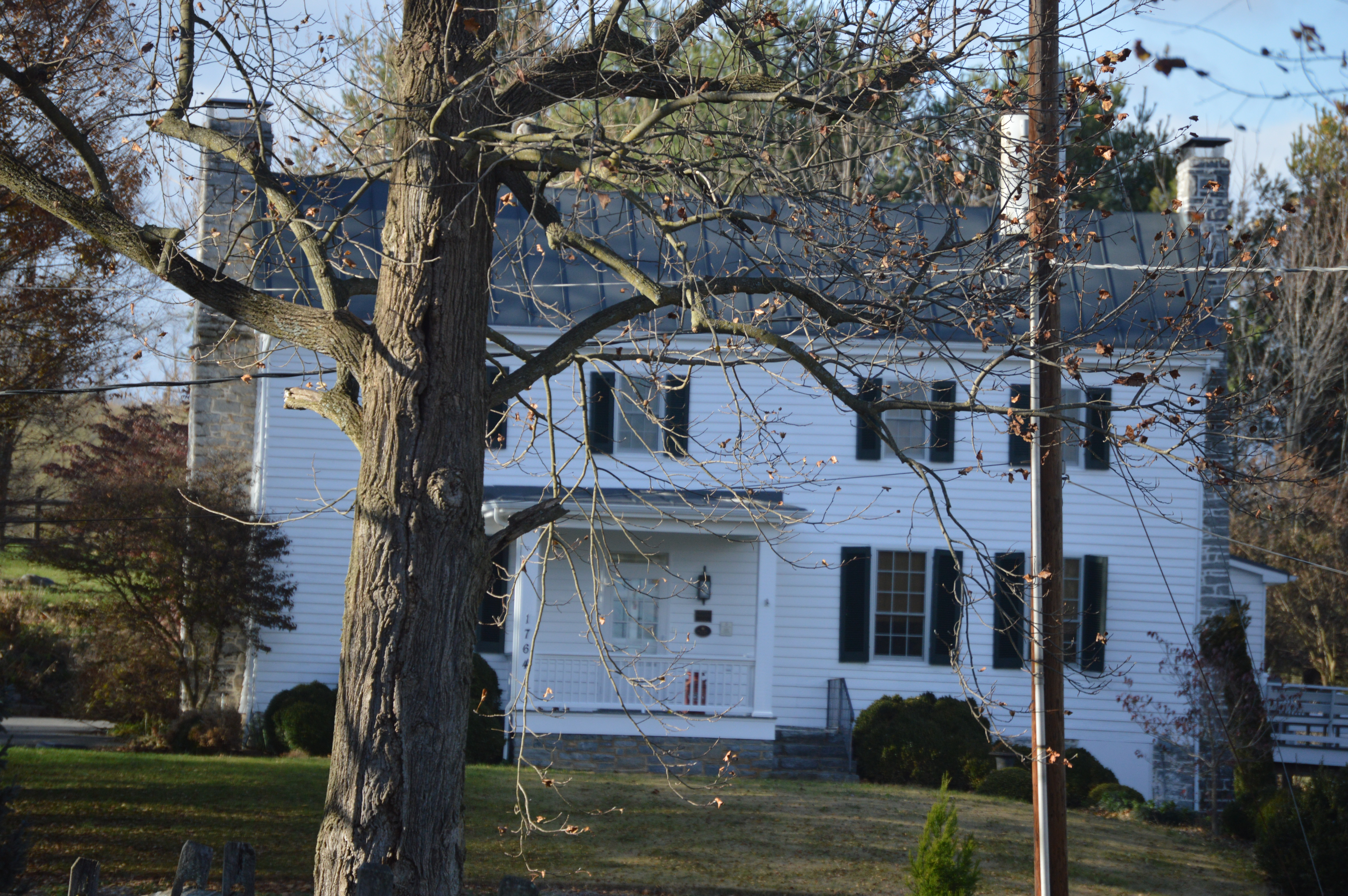 Roadside view of the Kyle's Mill House, located at 1764 State Route 276 southeast of Harrisonburg in Rockingham County, Virginia, United States. Built in 1750 and later expanded, it is listed on the National Register of Historic Places.